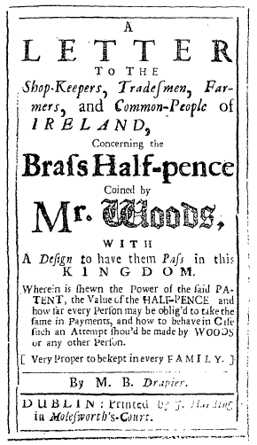 Title page from Jonathan Swift's A letter to the shop-keepers, tradesmen, farmers, and common-people of Ireland